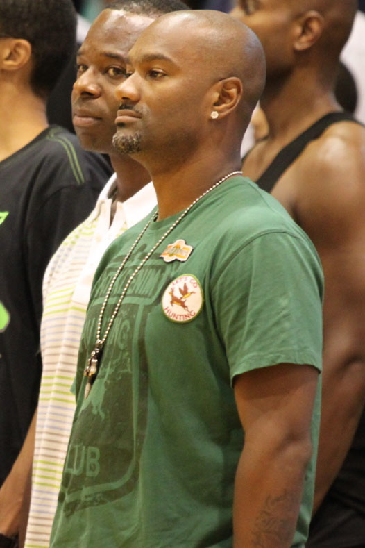 Radio host Big Tigger at the Drew-GOodman basketball game in Washington, DC.